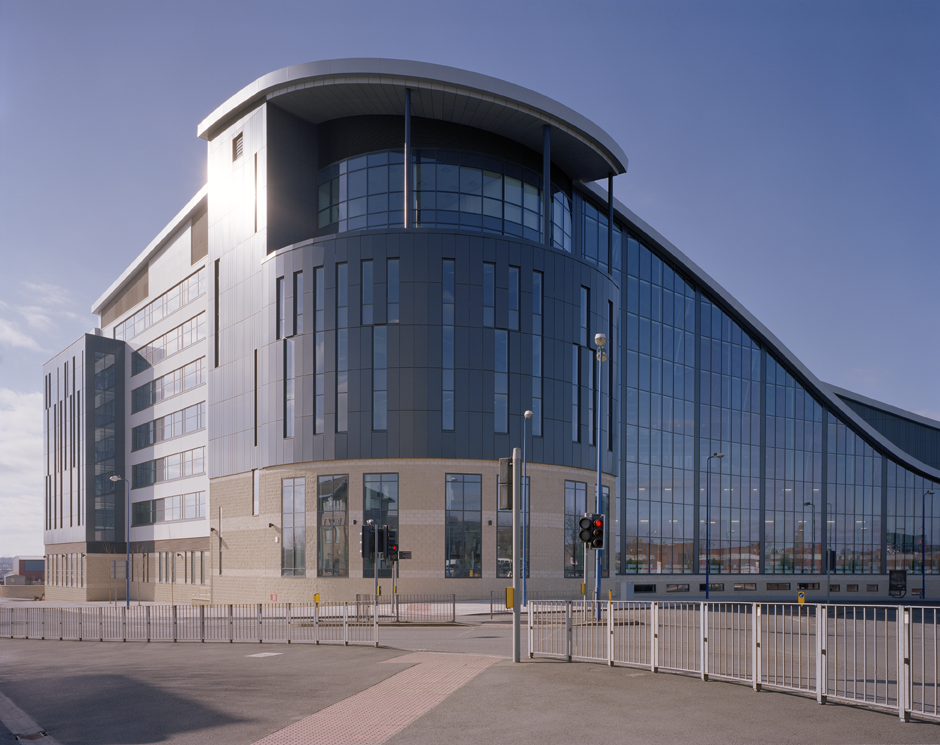 Photograph of Central Campus, Sandwell College, West Bromwich, West Midlands, UK.